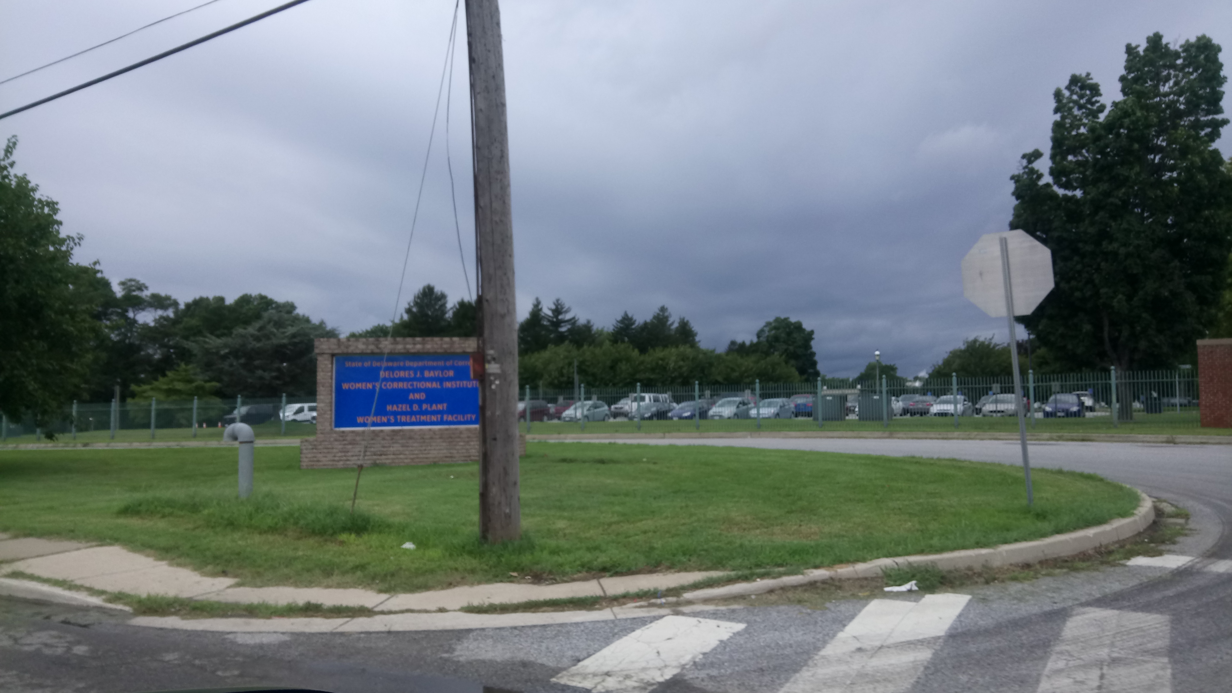 Delores J. Baylor Women's Prison entrance